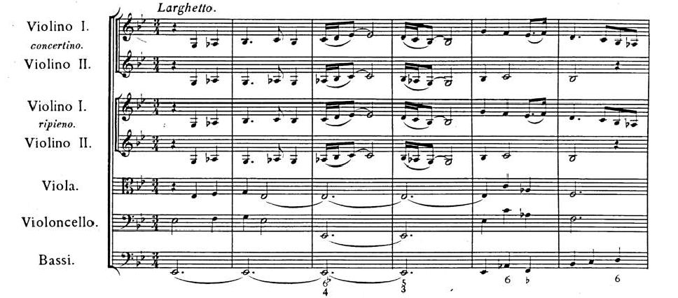 HWV324 Musette from Concerto Grosso Op.6 No.6